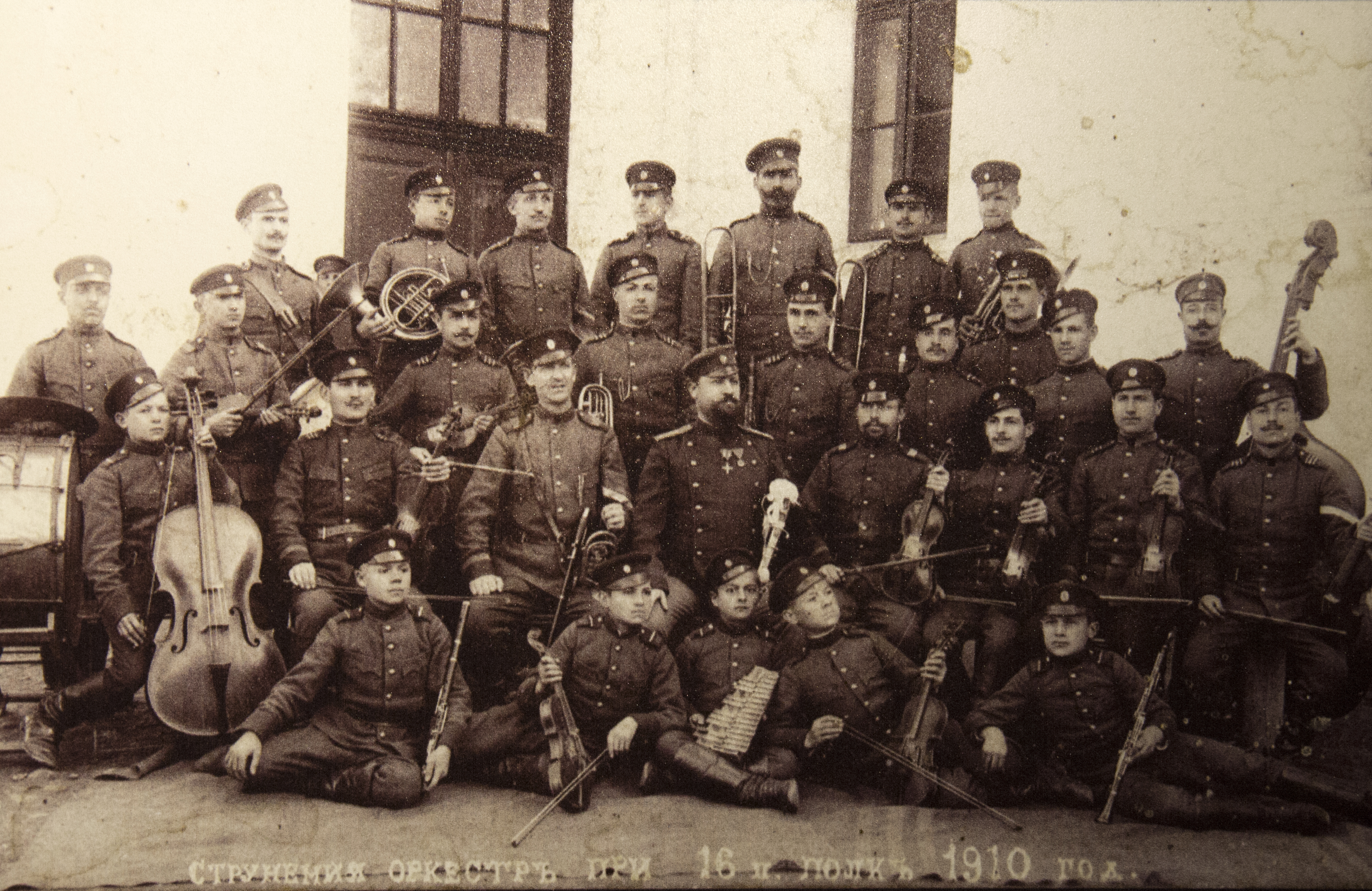 This photo was uploaded during the creation of the first wiktown in Bulgaria WikiBotevgrad.